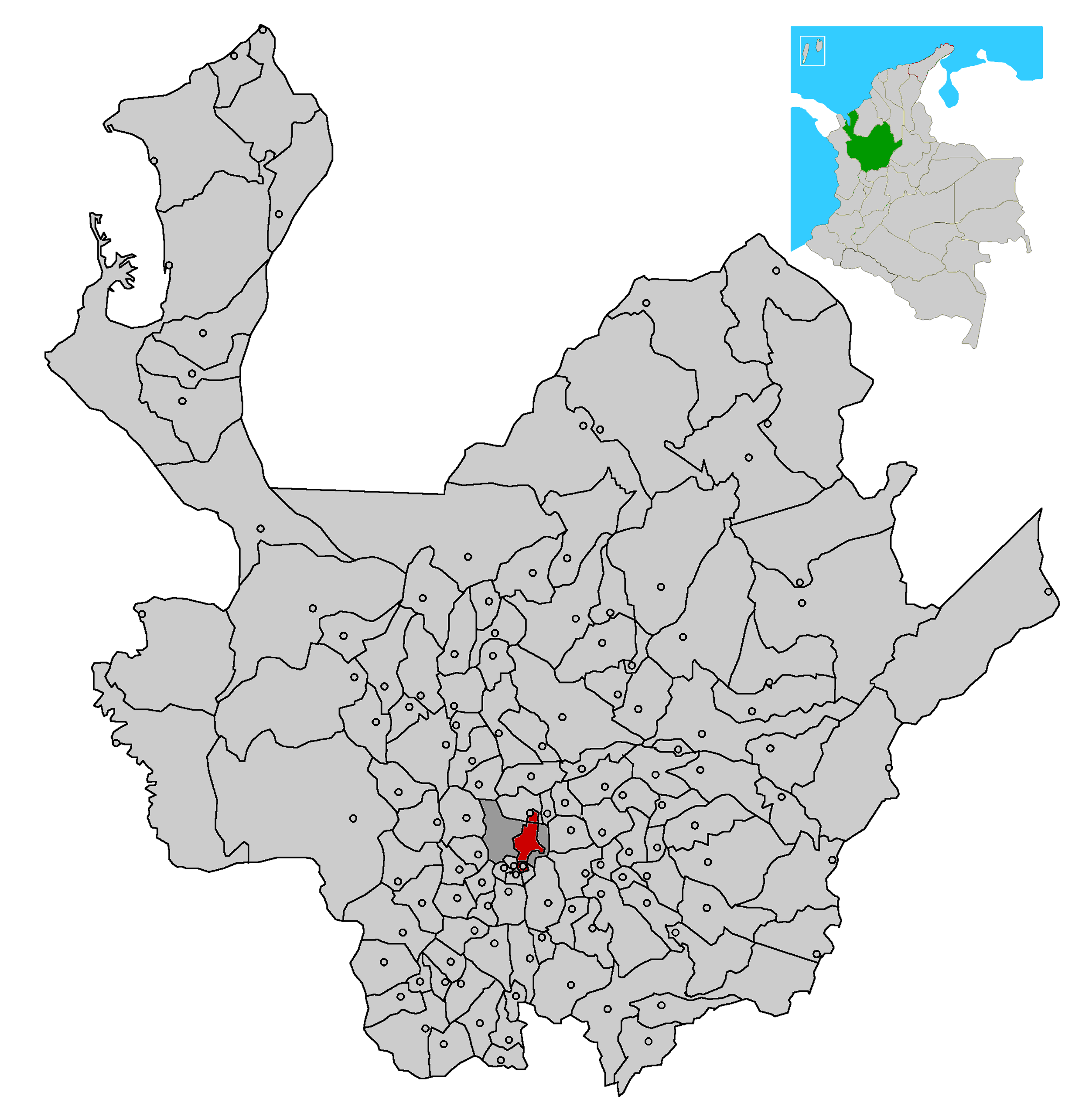 Image depicting map location of the town and municipality of Medellin in Antioquia Department, Colombia